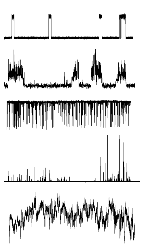 Variety of current-time records seen in "single-molecule" voltage-clamp experiments. These particular records are derived from b-cyclodextrin half-channels prepared by Chui & Fyles.